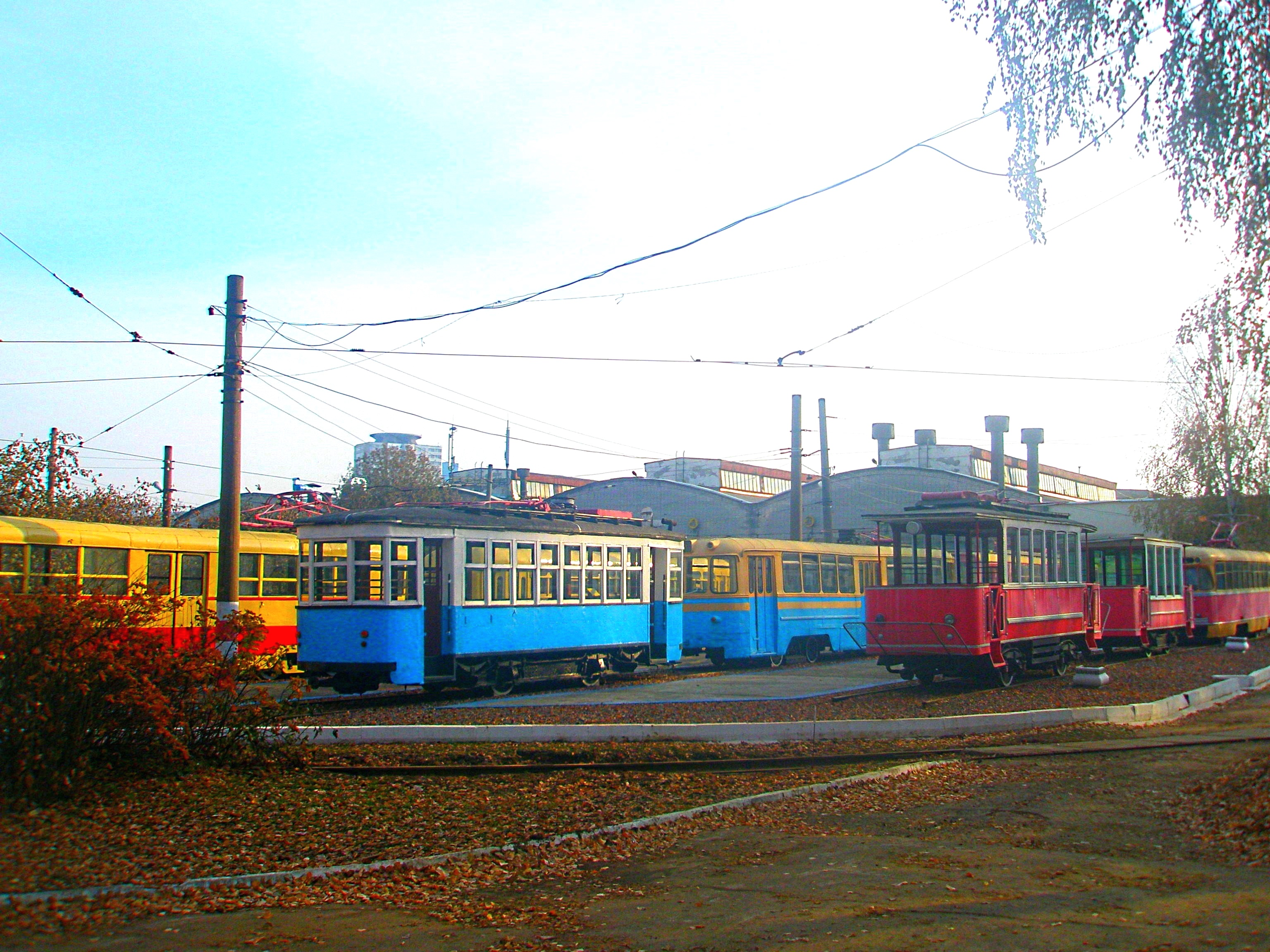 Trams in Nizhny Novgorod in museum of history of electric transport